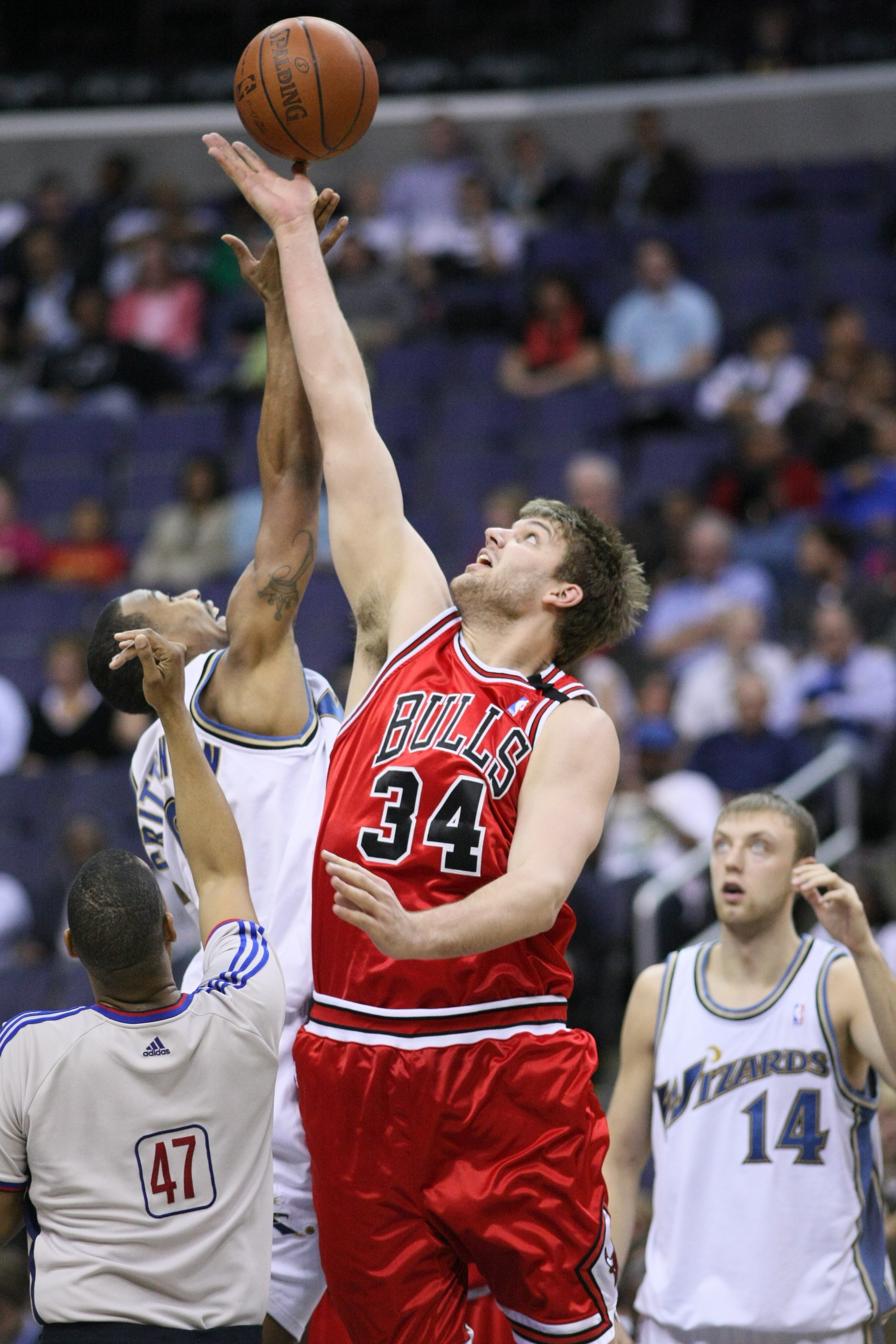 Aaron Gray of the the Chicago Bulls jumping during a tip-off against Javaris Crittenton of the Washington Wizards. Wizards' center Oleksiy Pecherov (#14) is seen to the right.